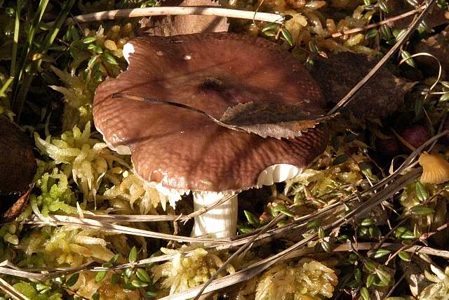 Russula spec. from Commanster, Belgium. The determination of the species shown in this picture has been verified.